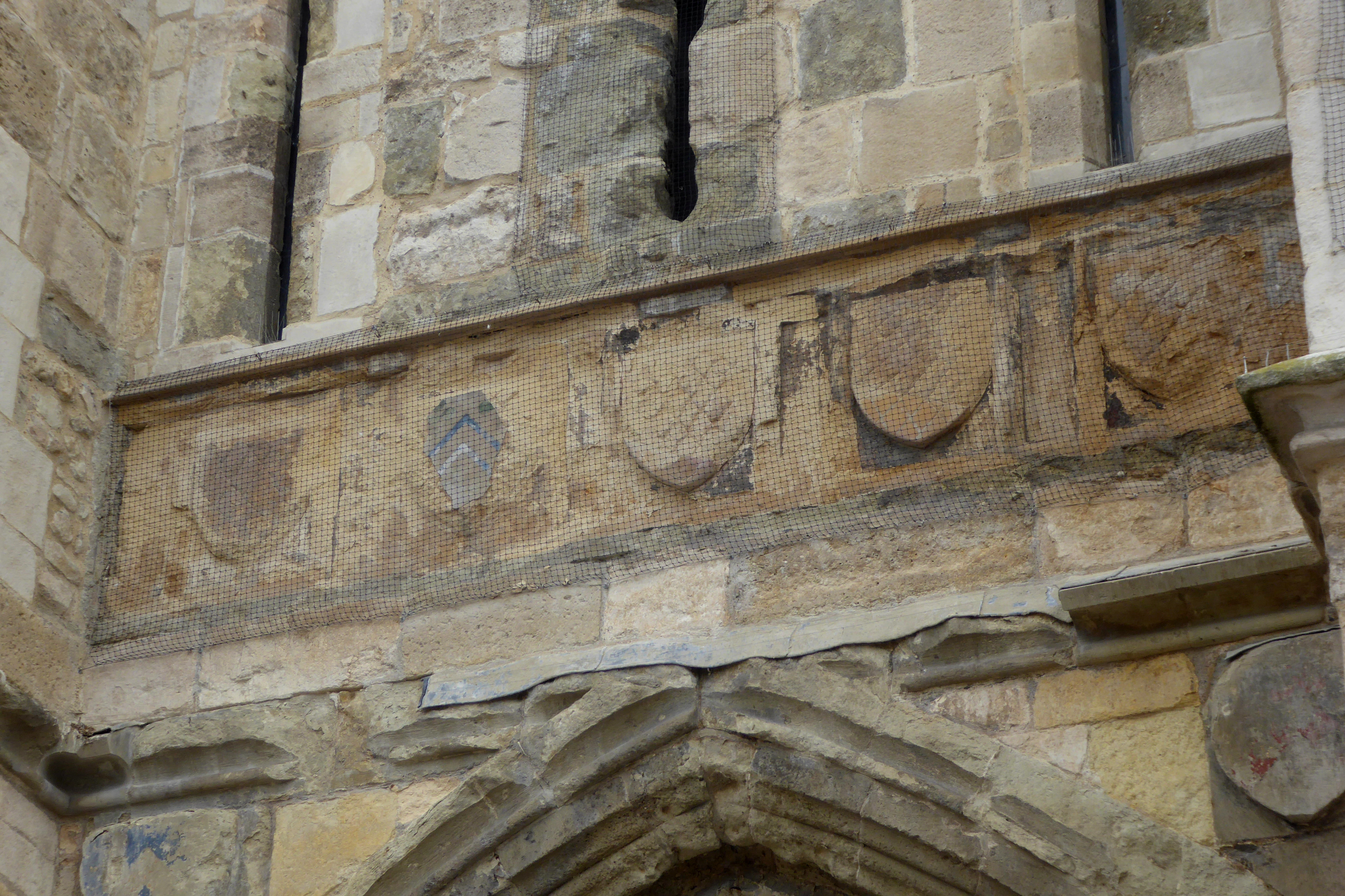 Heraldic Shields on the Northern Side of Bargate, Southampton